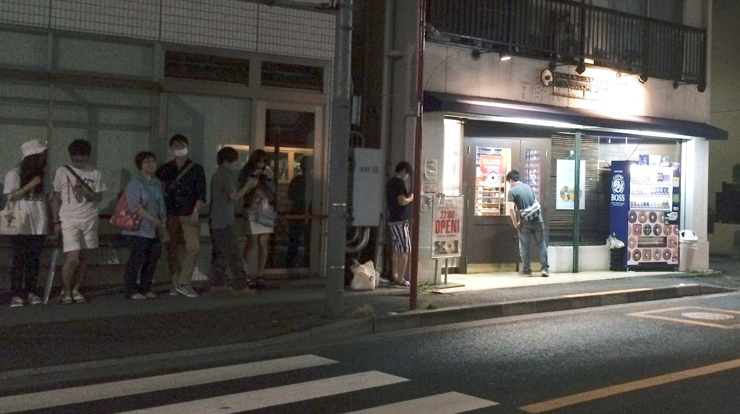 吉祥寺店兼セントラルキッチン 東京都武蔵野市吉祥寺東町2